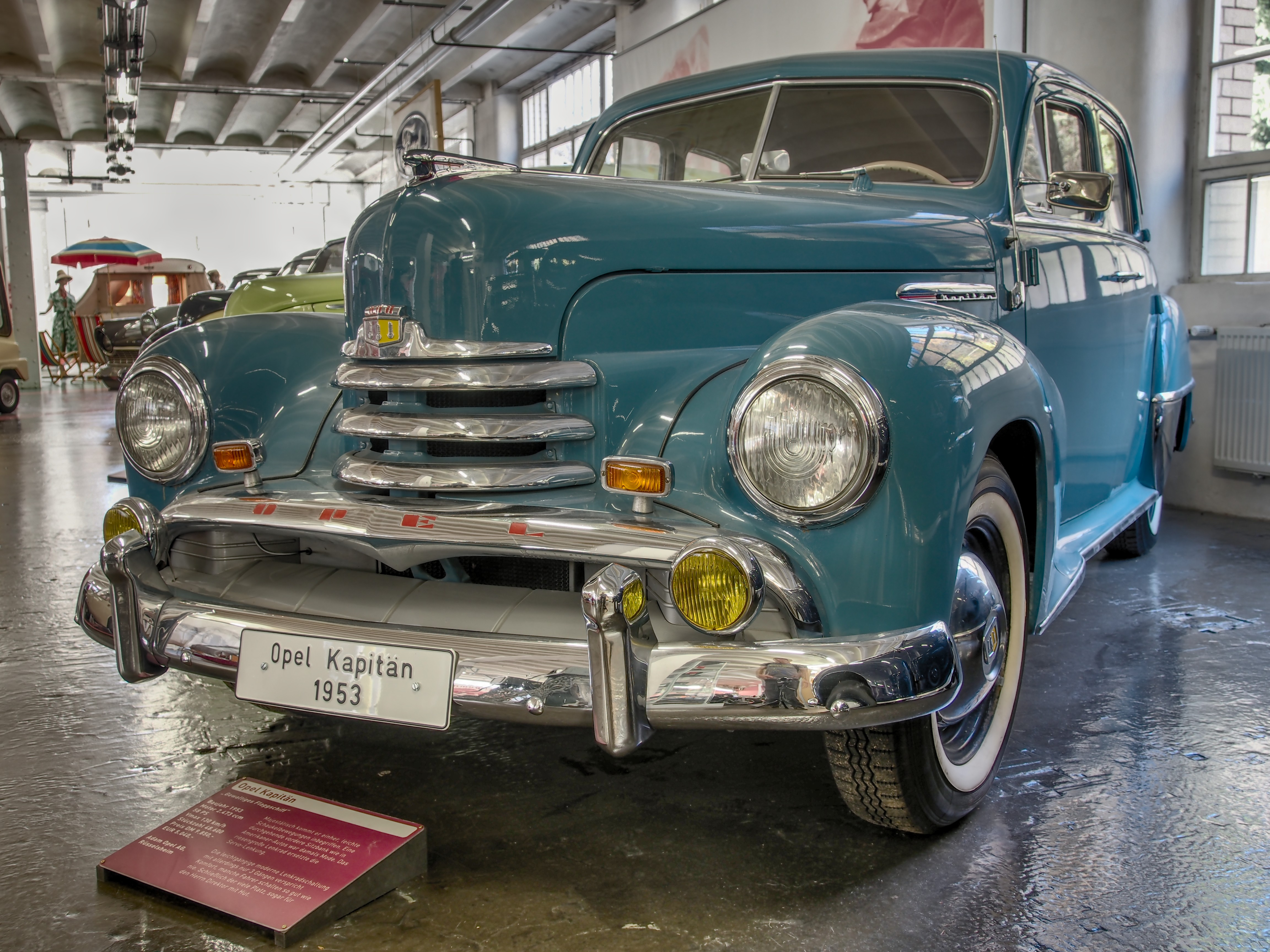 Photographed in the museum Auto & Uhrenwelt Schramberg, Germany.